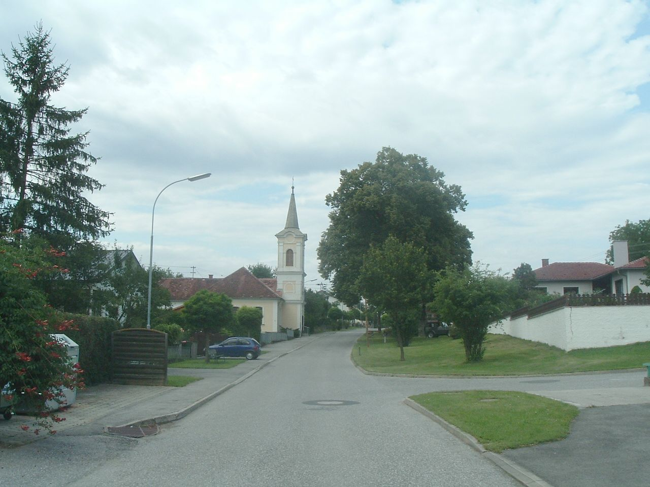 Welgersdorf (Velege), Burgenland